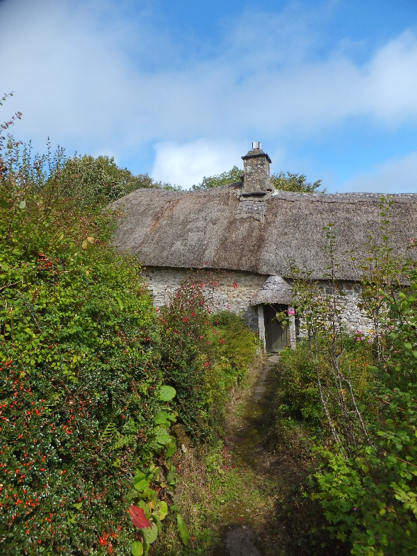 Doorway to Higher Uppacott longhouse